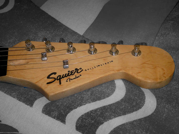 squier logo on electric guitar headstock